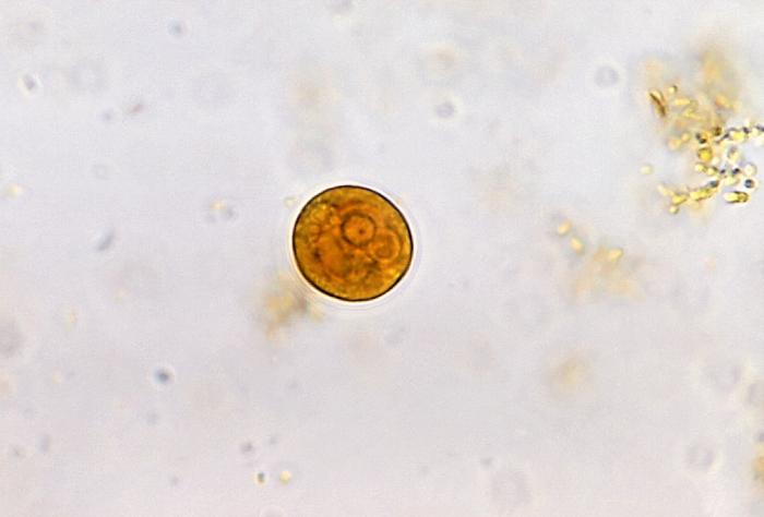 This image is in the public domain and thus free of any copyright restrictions. Courtesy of prep4md